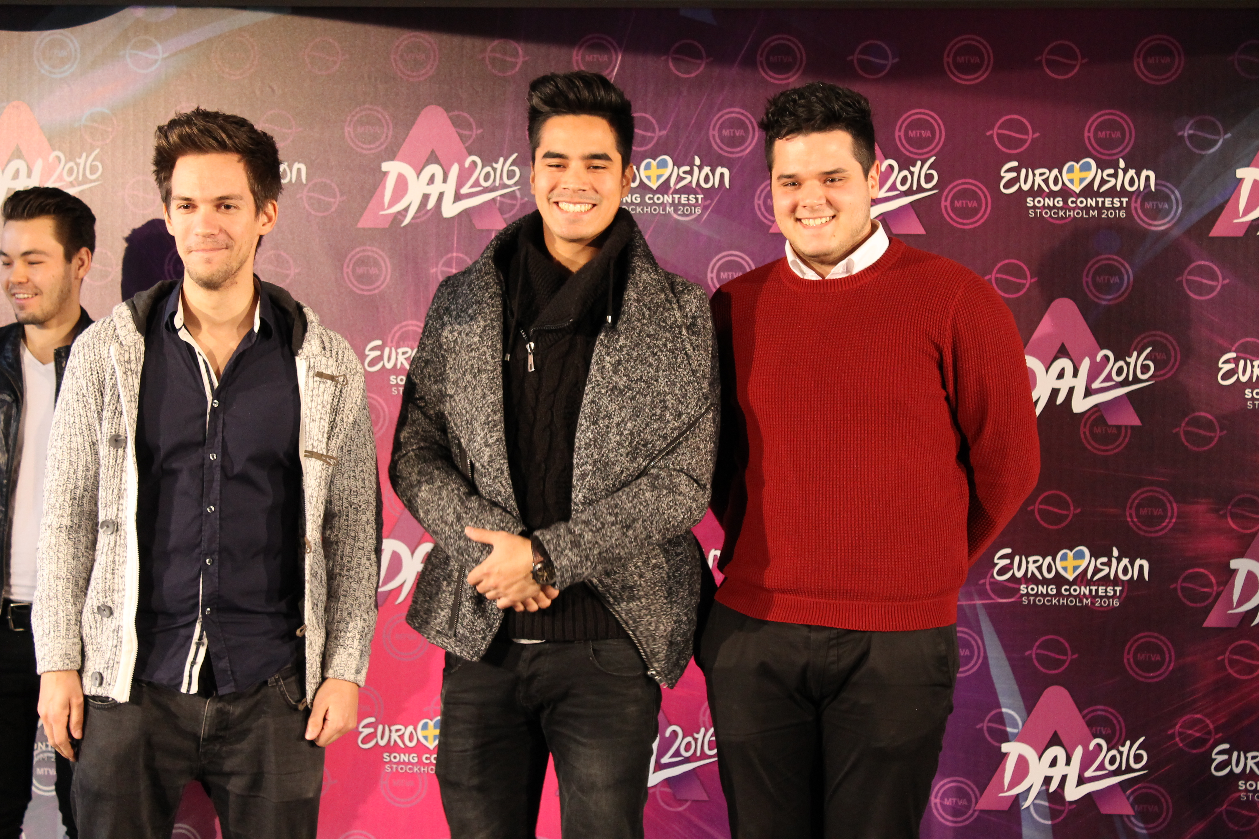 A Dal 2016 participant: ByTheWay